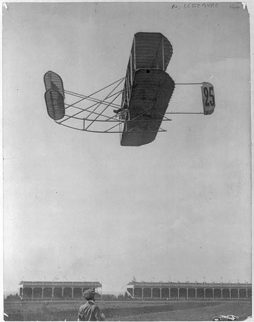 French aviator Eugène Lefebvre aloft, in Wright airplane at Reims, France, Sept. 1909.